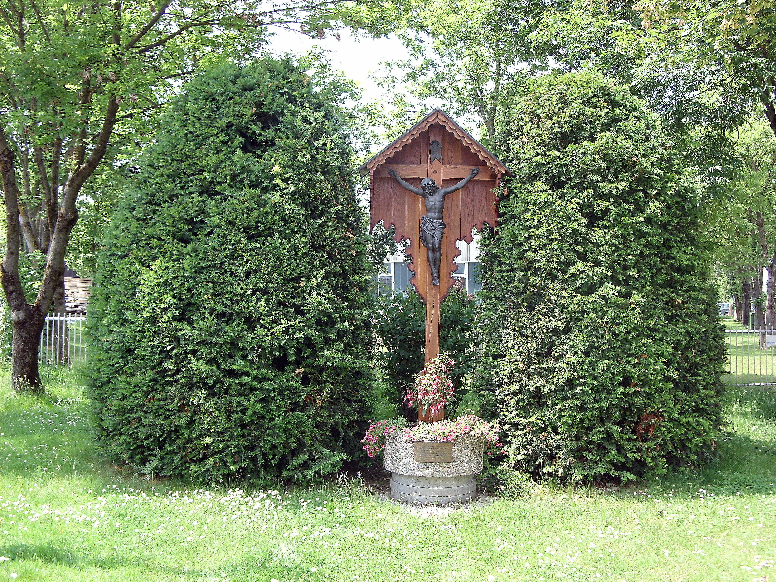 Memorial cross at the Emplstraße in Munich in remembrance of the Munich air disaster 06. Februrary 1958